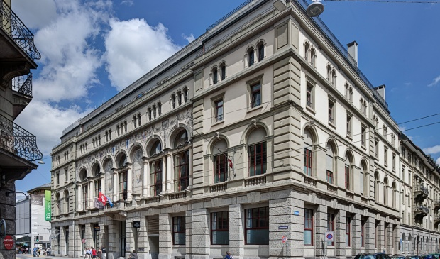 César Ritz Campus in Lucerne